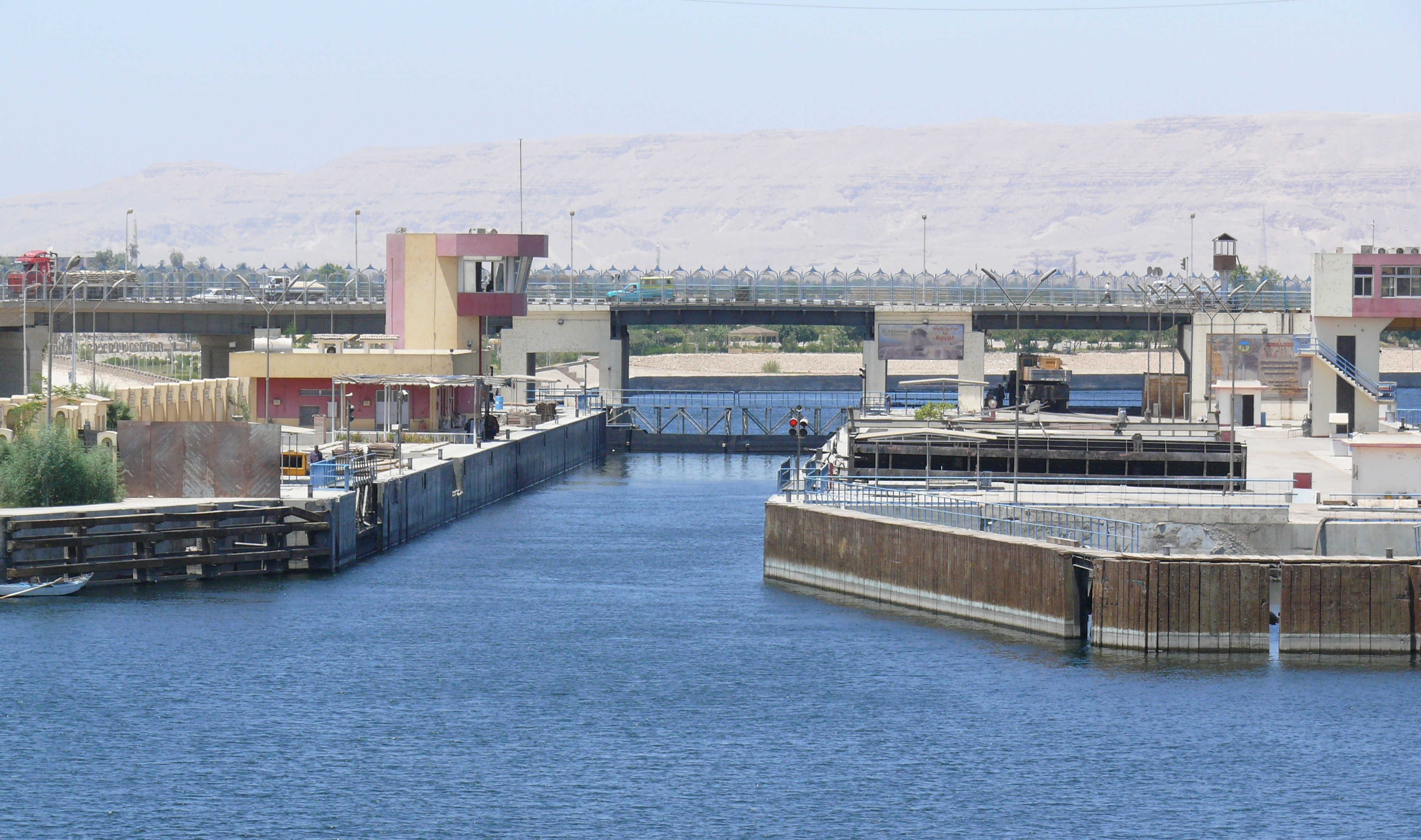 The canal lock complex at Esna.